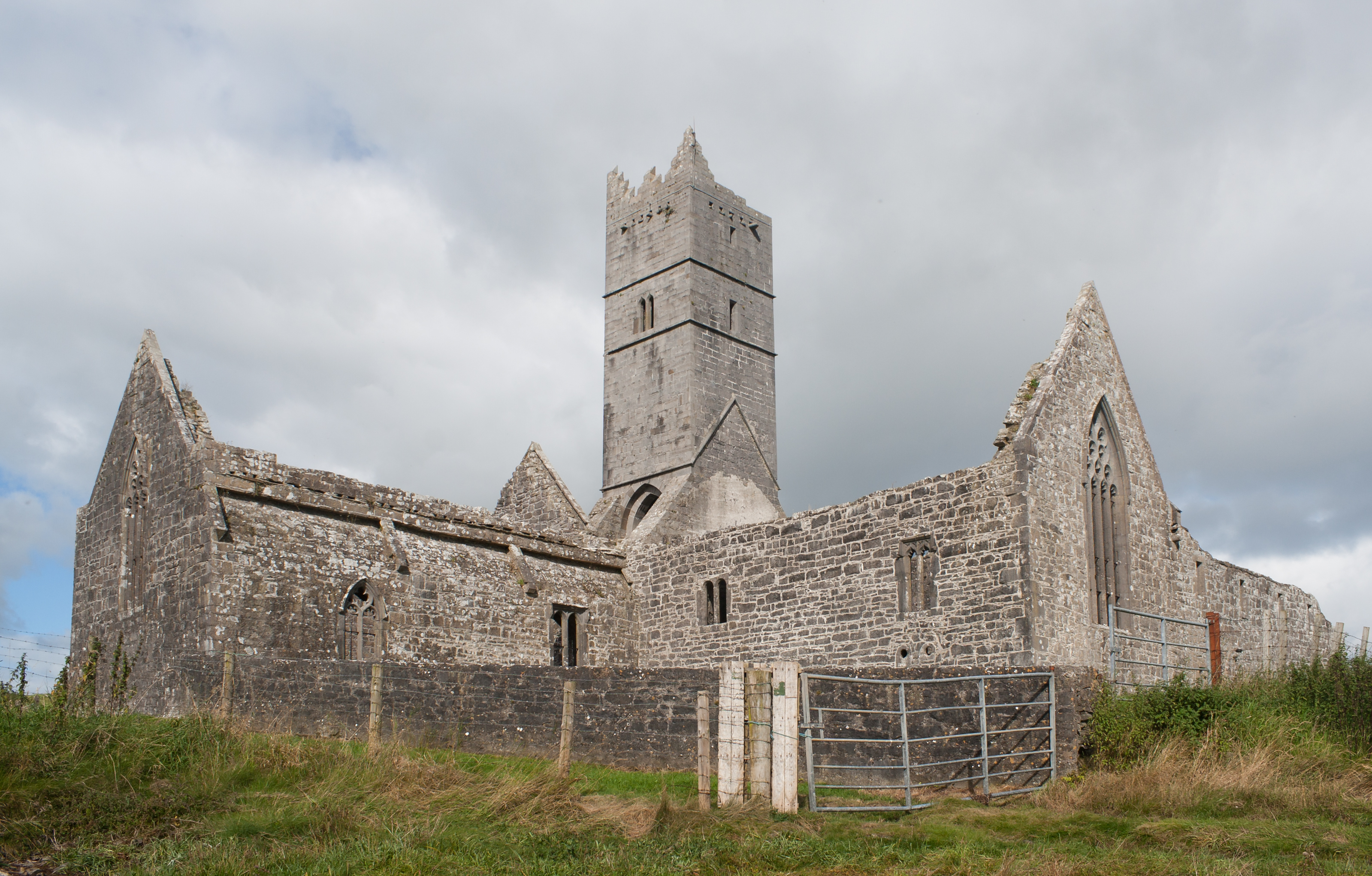 South-east view of Rosserk Friary. From left to right: south transept, tower, choir with east window, dormitory.